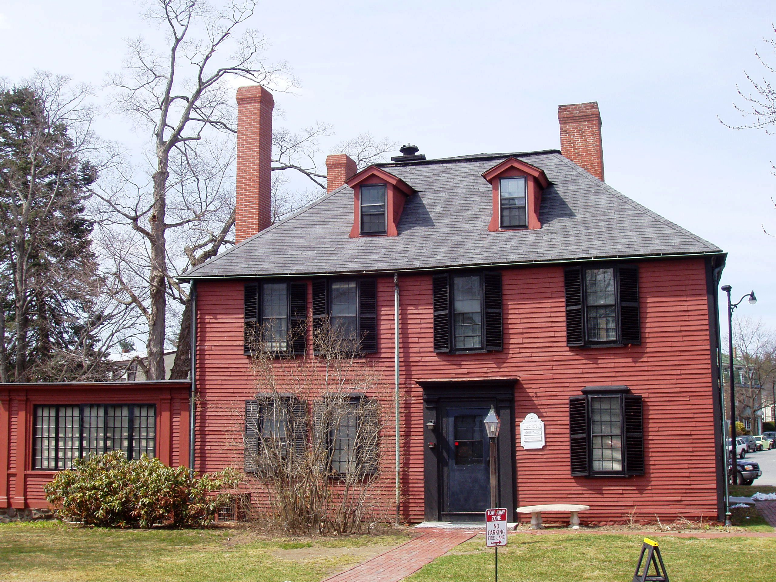 Photograph of Wright's Tavern, Concord, Massachusetts, USA.